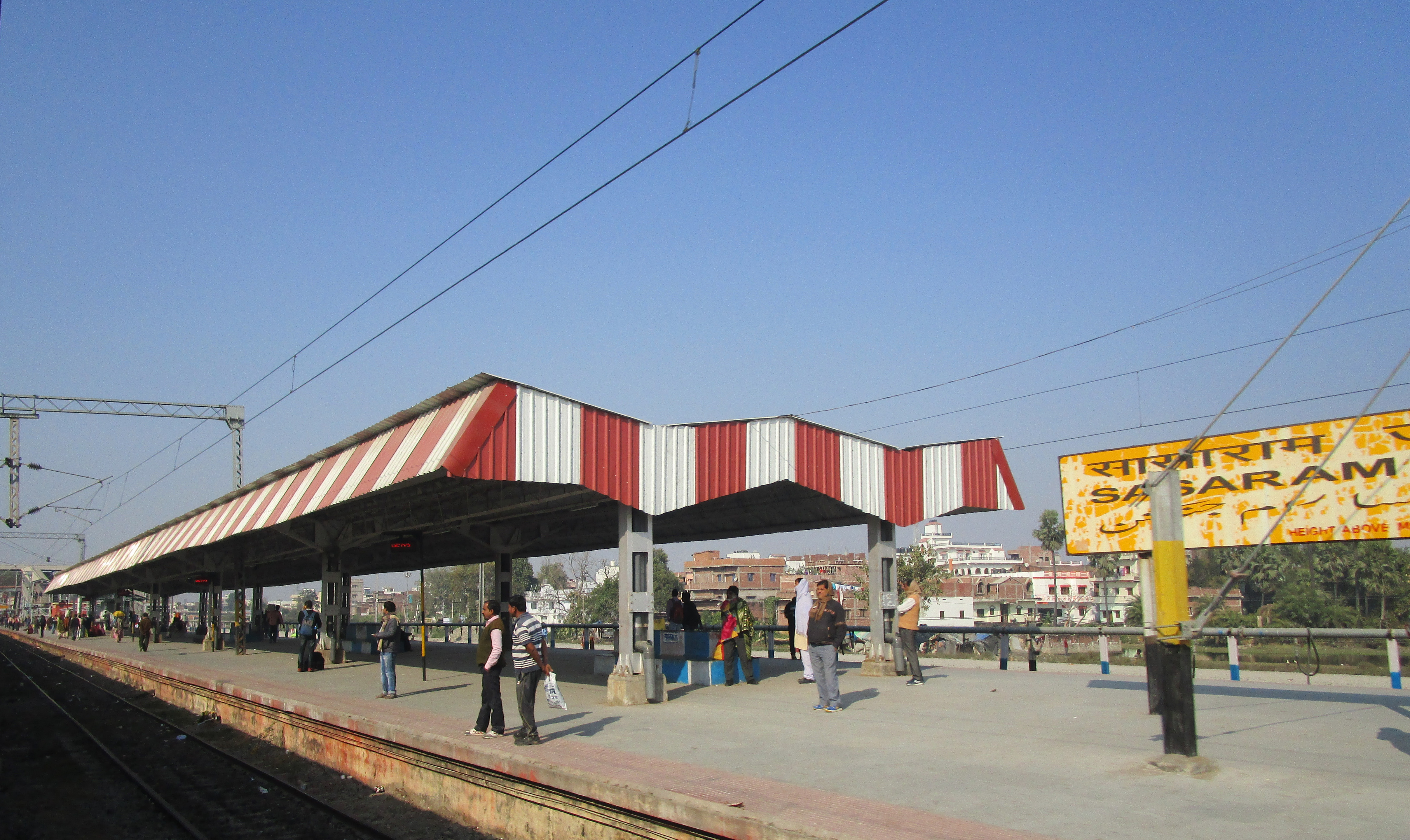 Sasaram Junction Railway Station Platform.